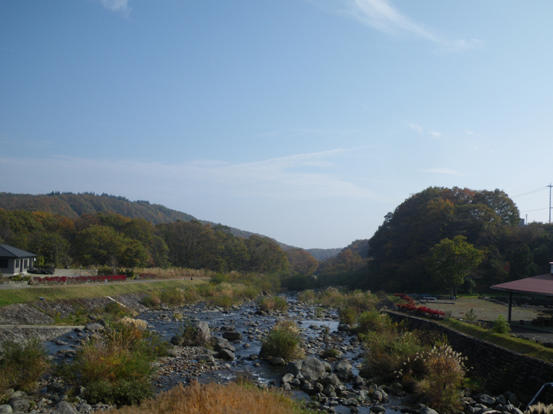 Yosasa-gawa river. Nasu, Tochigi, Japan.